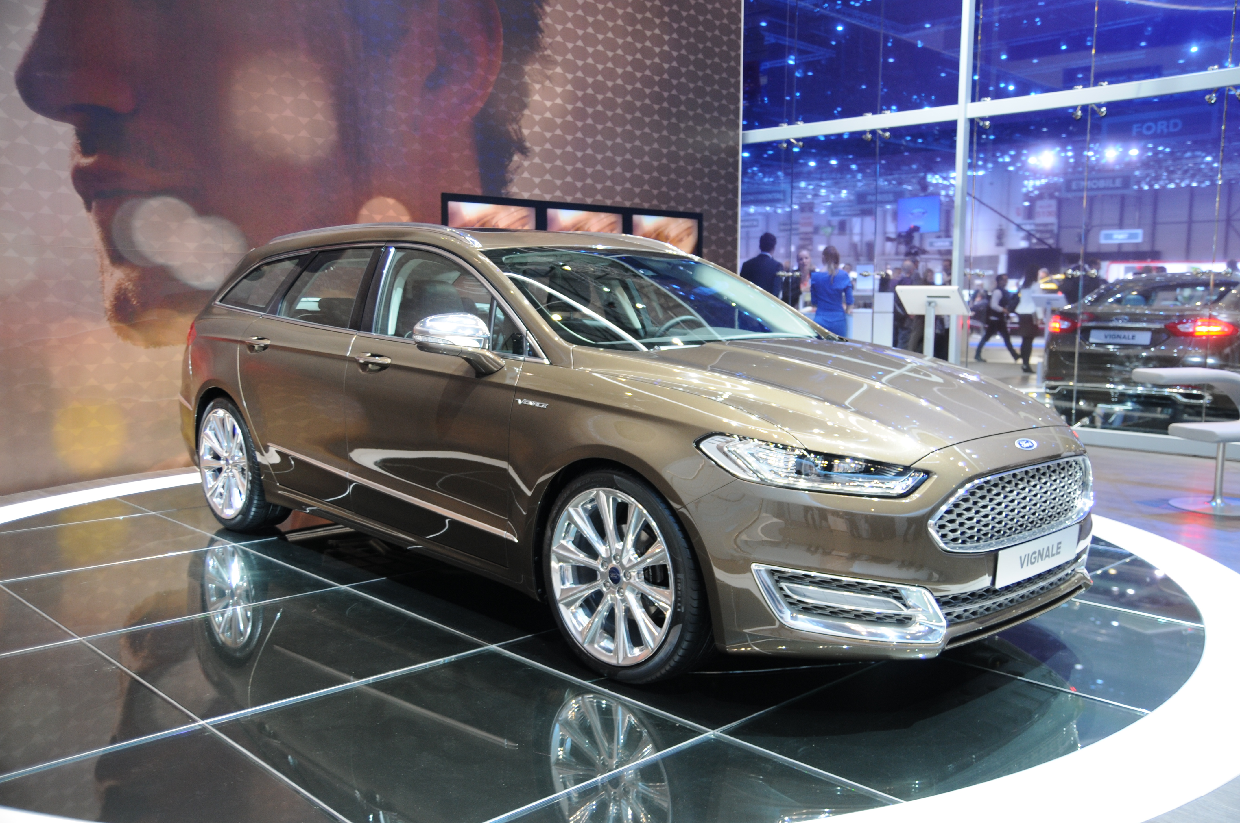 Geneva Motor Show 2014 (photo taken on the first press day)